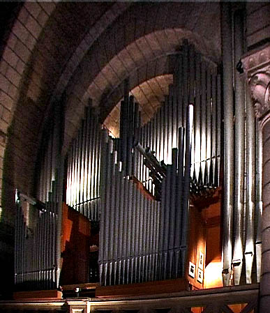 Orgue Boisseau de la cathédrale de Monaco (Principauté de Monaco) - Photo prise en 2006 Boisseau organ of the Cathedral of Monaco (Principality of Monaco - Europe) - year 2006